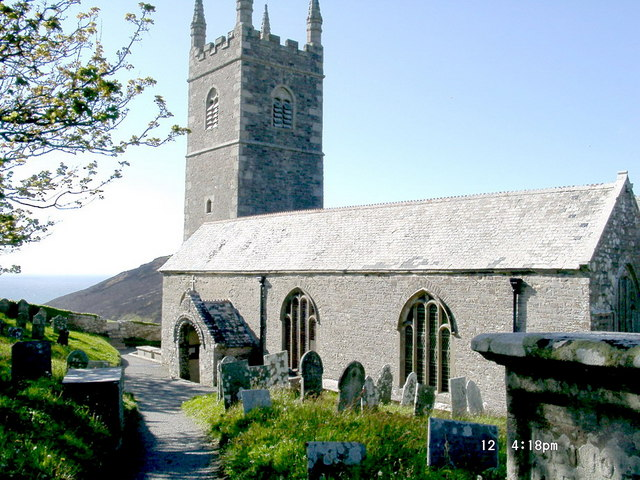 Photograph